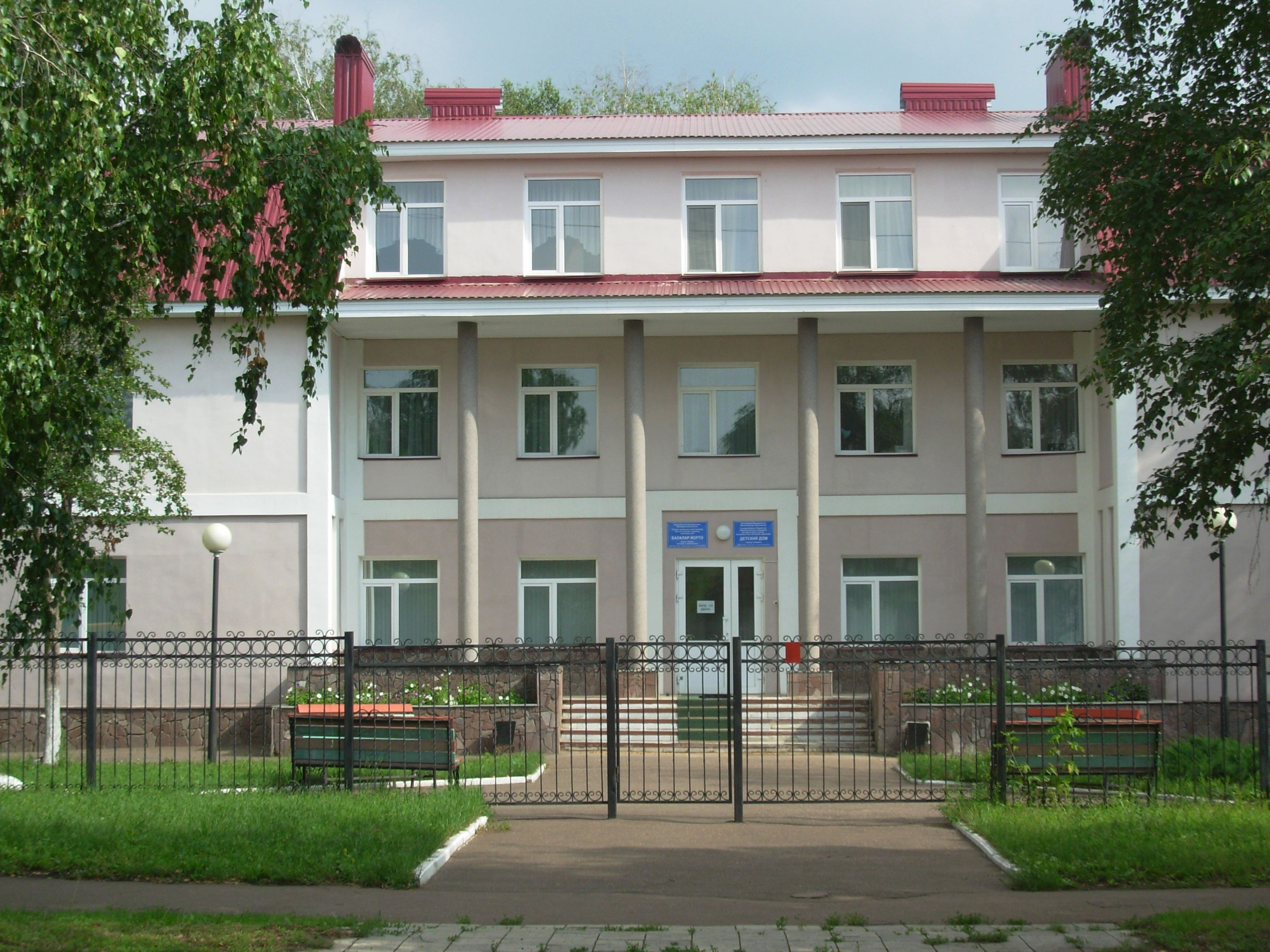 Educational institutions in Salavat